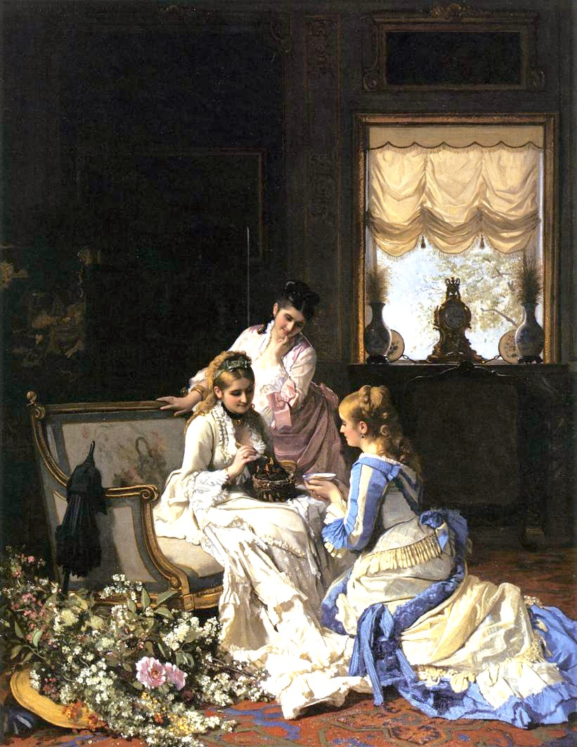 "Spring's New Arrivals",Painting - oil on panel, Height: 85.09 cm (33.5 in.), Width: 64.77 cm (25.5 in.)